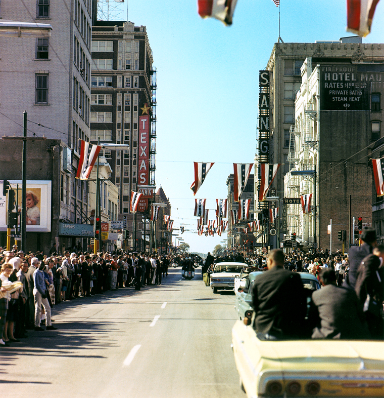 President John F. Kennedy's motorcade on Main Street, approching Dealey Plaza in Dallas, Texas. Seen seen from the second photographers' car. (Accession Number: ST-C420-21-63)